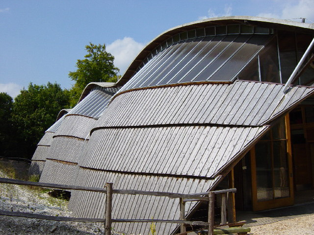 Photograph of the Gridshell building at the Weald and Downland Open Air Museum